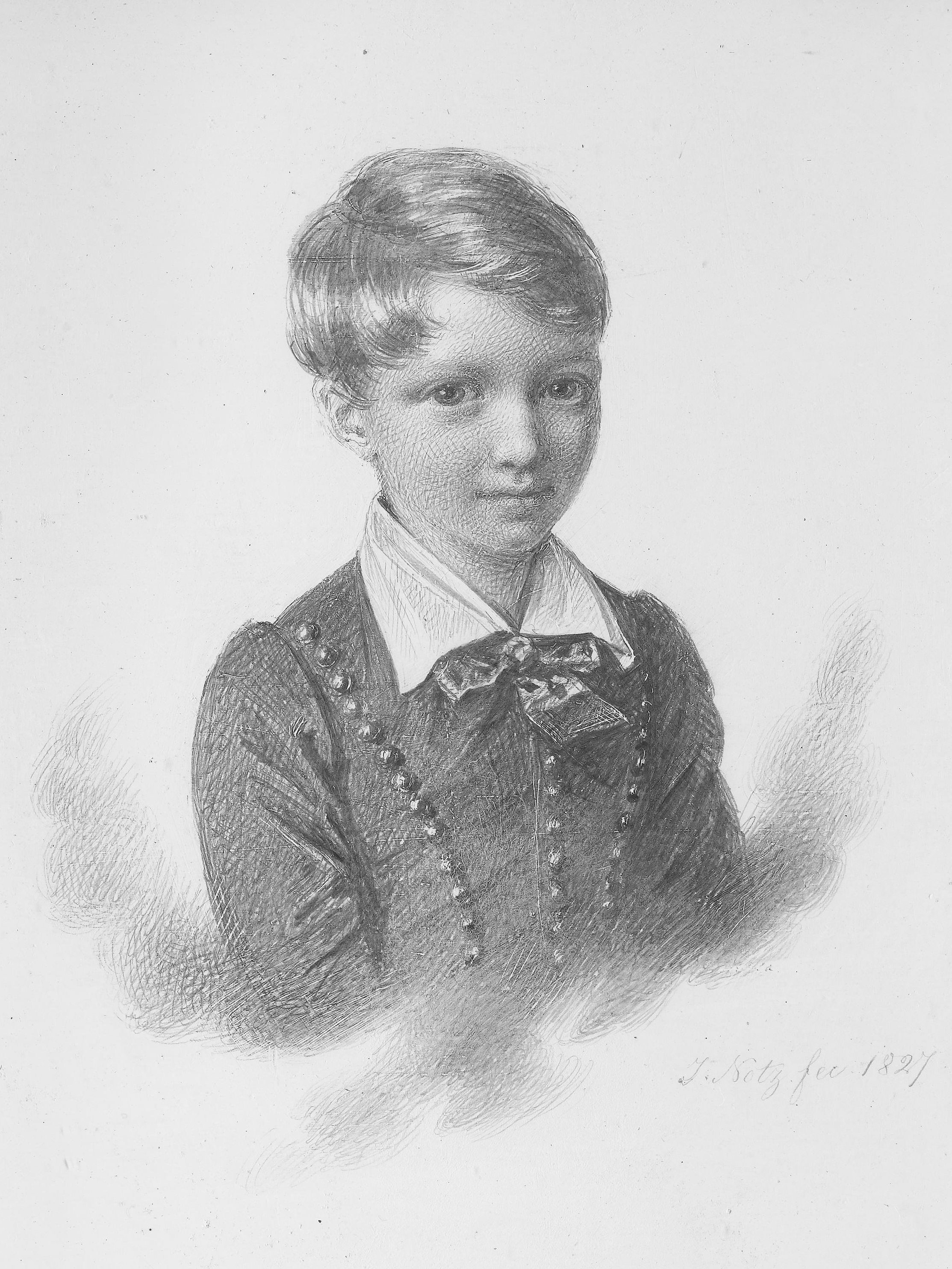 Henry Danby Seymour MP (1820-1877) as a child 10.8 cm (image is cropped though) signed b.r.: J.Notz fec. 1827 inscribed verso: Henry Danby Seymour/ born 1820 D.1877/ Hen.